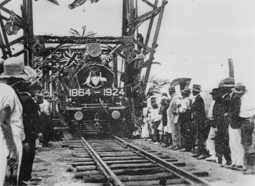 Opening of the Daradgee Bridge over the Johnstone River for the railway link between Townsville and Cairns, 1924. The first Cairns engine to cross the Daradgee Bridge. (Description supplied with photograph.).